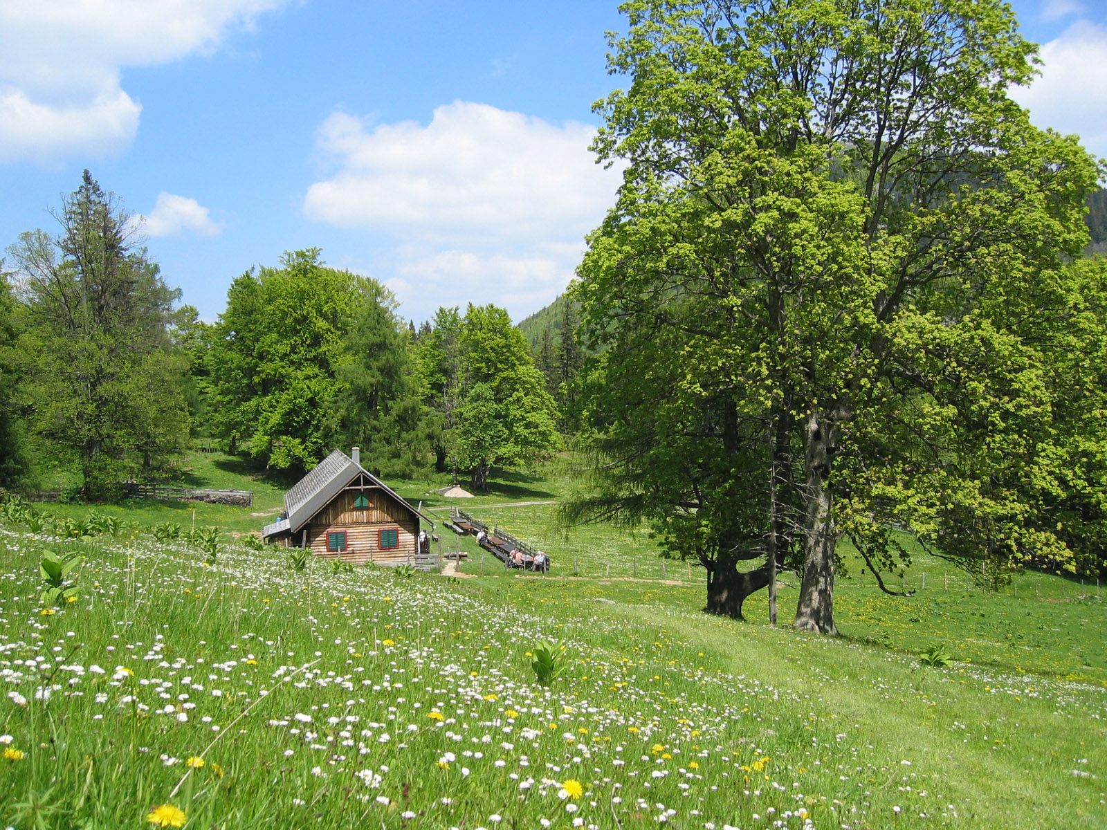 Kleinzeller Hinteralm, Lower Austria, view towards Hochstaff (the mountain behind the tree at right).